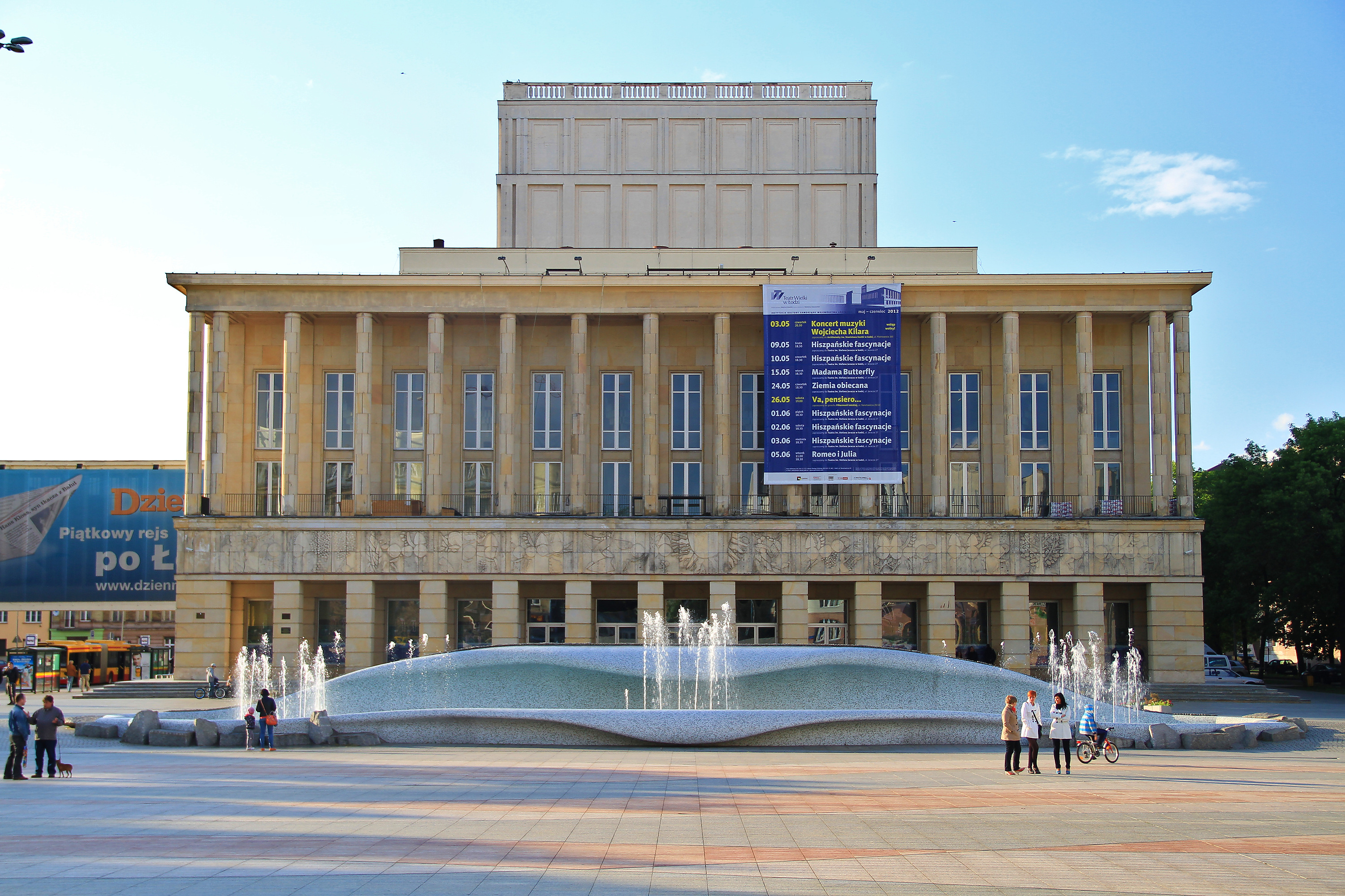 Photo from tram trip in Wikimedia Polska Conference 2012